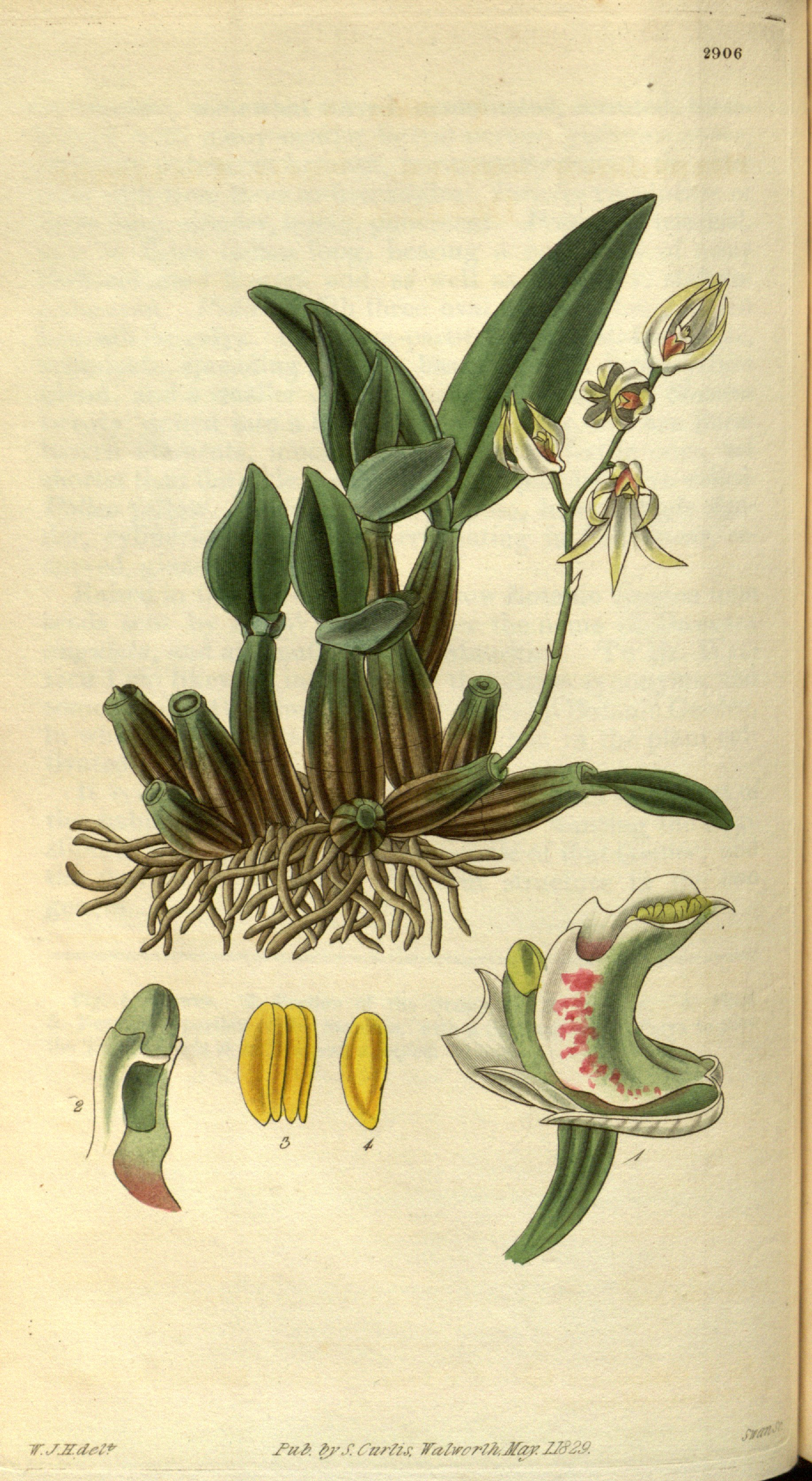 Illustration of Dendrobium aemulum